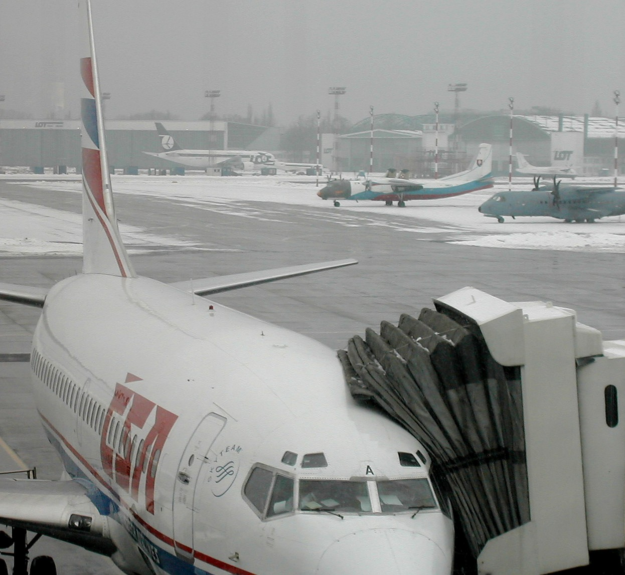 CSA B737 at Warsaw Airport, Slovak An-24V also visible